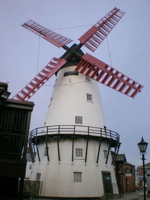 Marsh Mill, Thornton, near to Thornton, Lancashire, Great Britain.